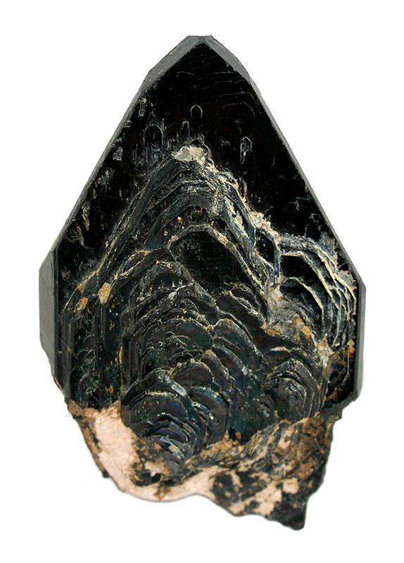 Manganotantalite Locality: Lavra de Cori, Bahia, Brazil Size: small cabinet, 7.0 x 4.5 x 4.3 cm Manganotantalite (twinned) An oustanding, dramatic twinned crystal of this rare earth species, showing great lustre AND form...rare in such a crystal. Also, most tantalites from Brazil are flat-topped and just plain brutish looking. This is as elegant as I can imagine a tantalite crystal to be! Note it is nearly pristine with just a few trivial dings, and otherwise it is complete all around. In some lighting, it acquires a surface iridescence, you can see. This is exceptional not only for Brazilian examples of this species, but for ANY locale